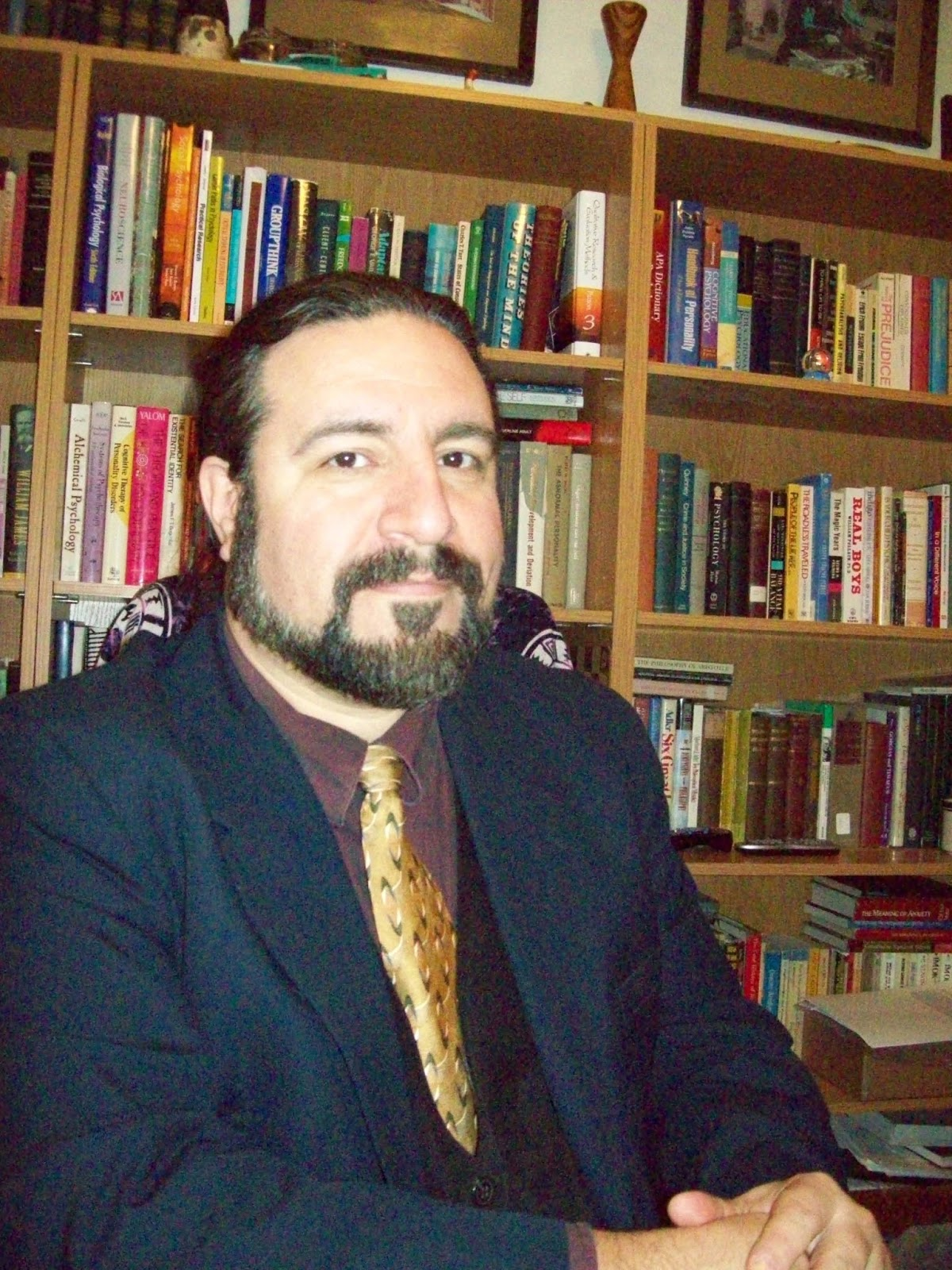 Neal Chase - Guardian of Baha'is under the Provisions of the Covenant (BUPC) Faith